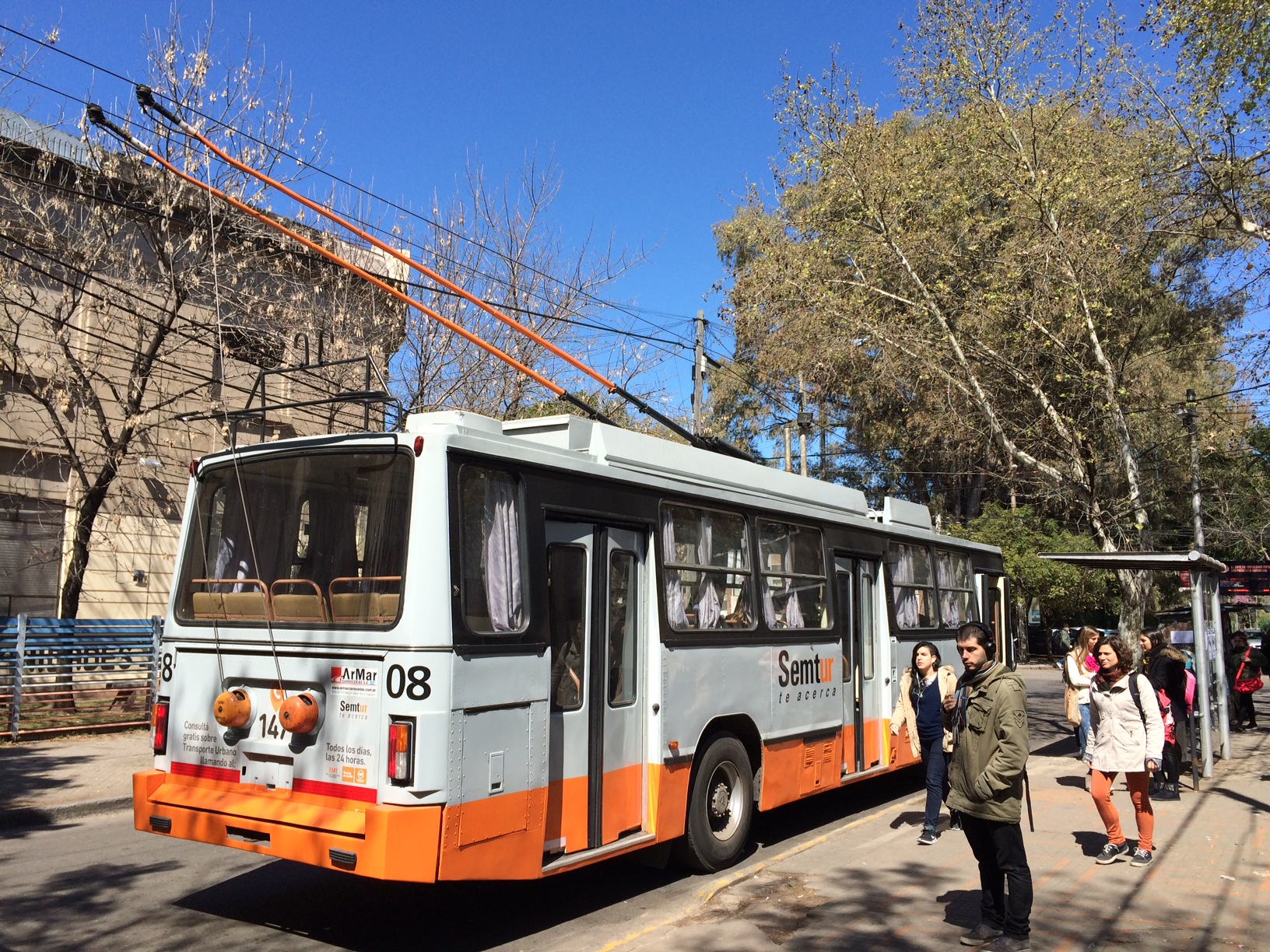 A rear and doorside view of Rosario (Argentina) trolleybus No. 08, a Volvo/Marcopolo trolleybus, at a stop for route K in 2015.